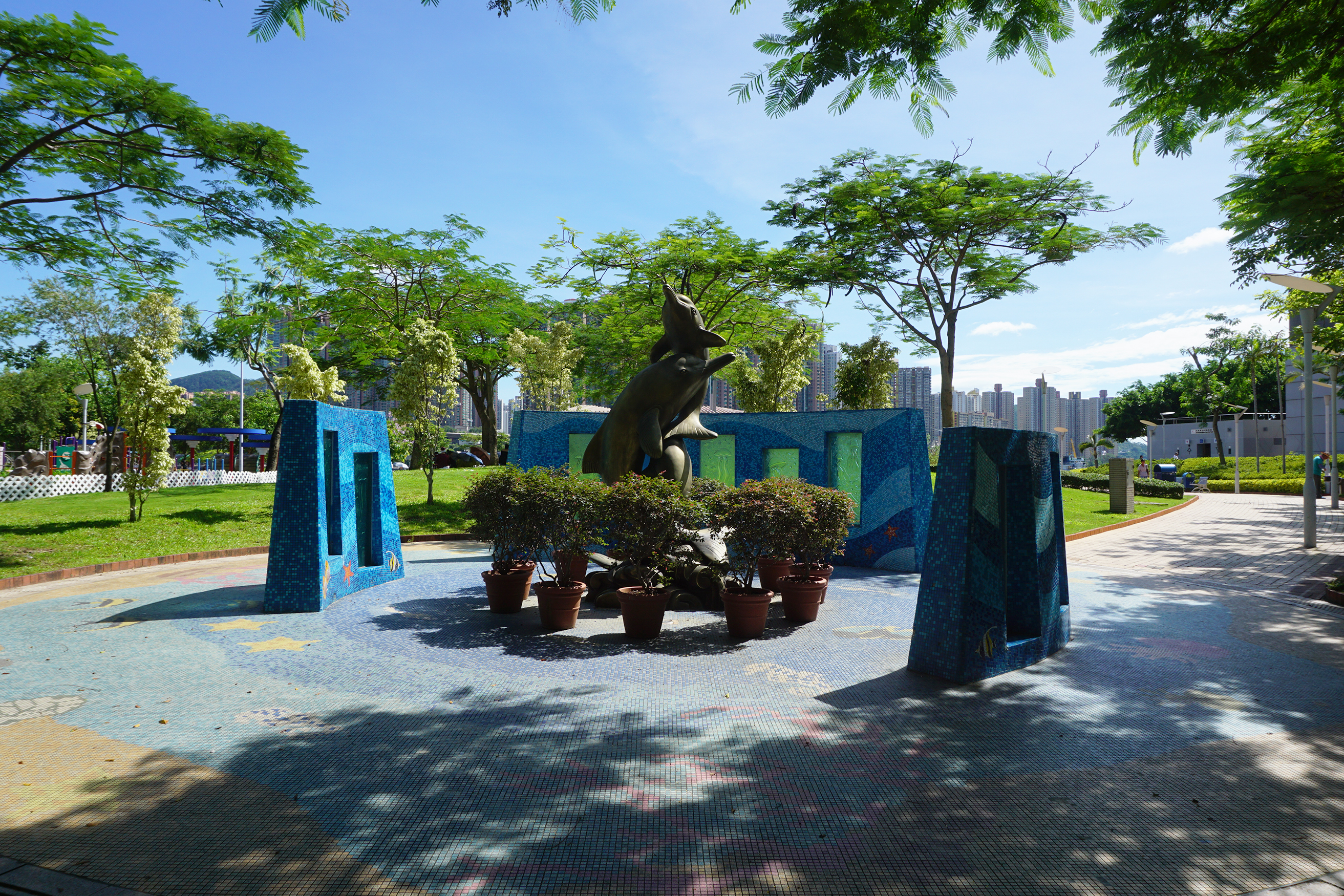 Tsuen Wan Park in Tsuen Wan, Hong Kong.